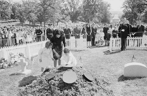 Jacqueline Kennedy, Caroline Kennedy, and John Kennedy, Jr. visit the temporary grave of President John F. Kennedy on May 29, 1964 (the President's 47th birthday). The evergreen boughs cover the base of the temporary Eternal Flame at the head of the grave vault. The small white cross to the left marks the grave of the unnamed Kennedy daughter who was stillborn in 1956. The white headstone to the right marks the grave of Patrick Bouvier Kennedy, who died in August 1963 two days after being born. Both children were reinterred next to their father in December 1963. The military hats on the evergreen boughs were first left as an impromptu act of respect by the presidential honor guard during the funeral in November 1963, and were continually replaced by military personnel until banned in April 1967.